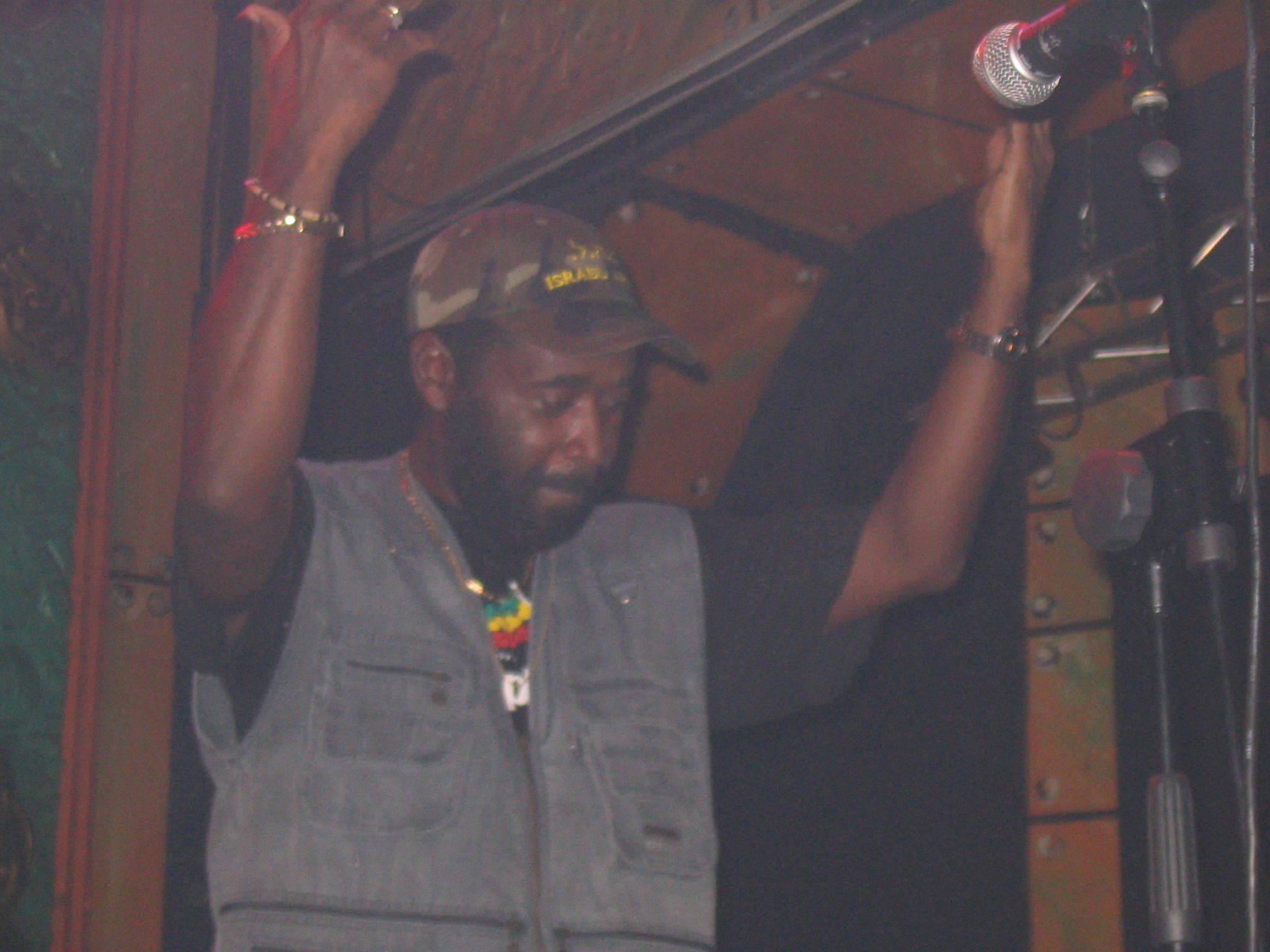 The reggae band Gladiators in concert in Rockstore, Montpellier, France, 11/20/06